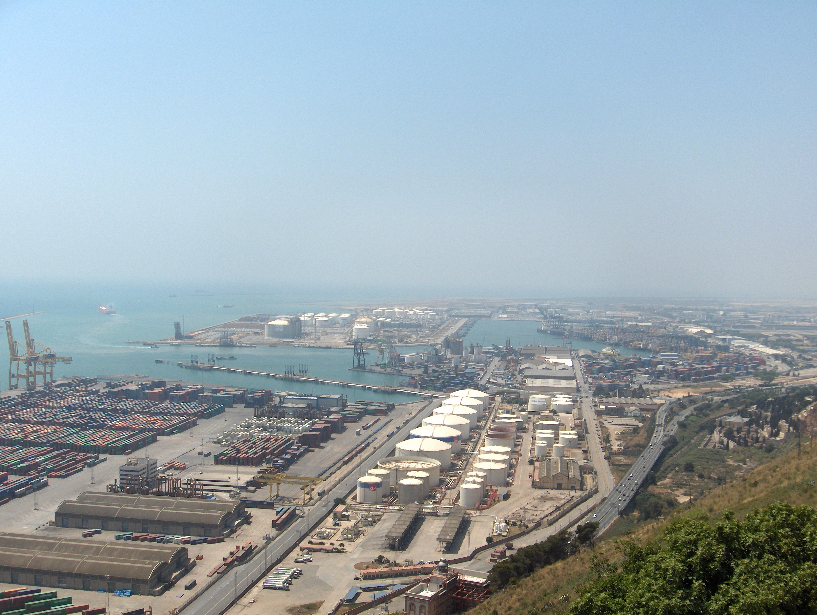 View of Barcelona harbour from Montjuic hill